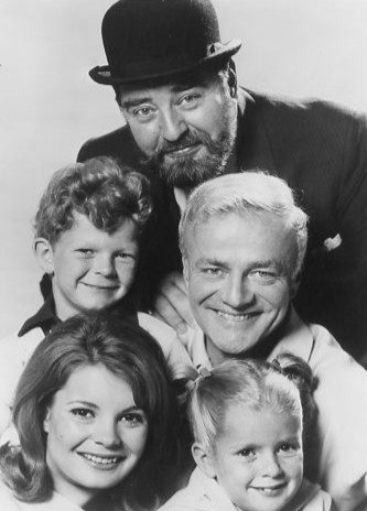 Publicity photo of cast of Family Affair. Pictured are Kathy Garver (Cissy), Anissa Jones (Buffy), Johnny Whitaker (Jody), Brian Keith (Bill Davis), and Sebastian Cabot (Mr. French).